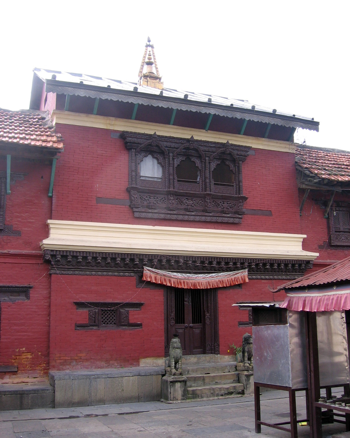 Kindo Baha, a 17th-century Buddhist monastic courtyard in Kathmandu, Nepal.